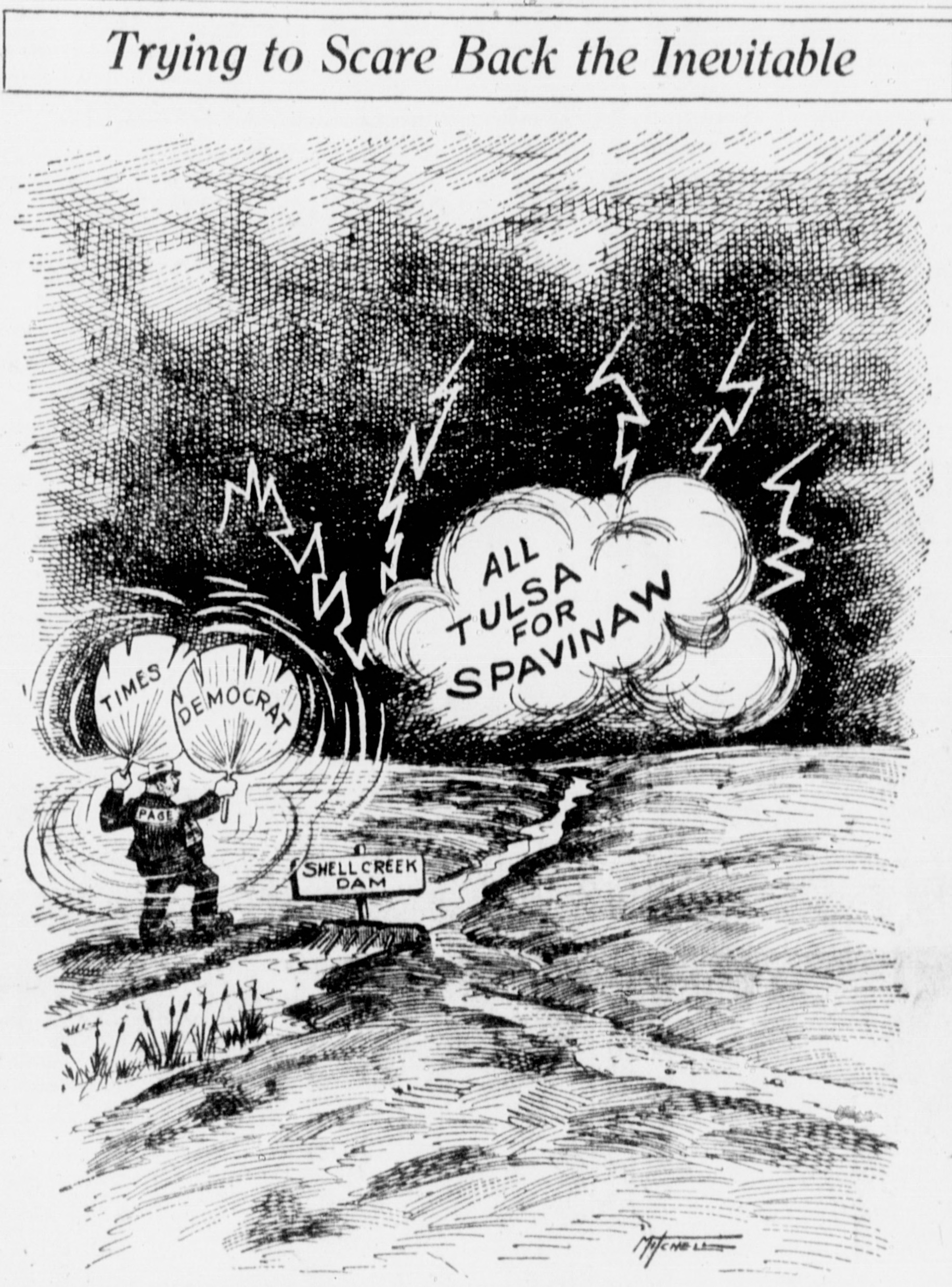 Coverage of the Spavinaw Water Project the Tulsa World newspaper (owned by Eugene Lorton)